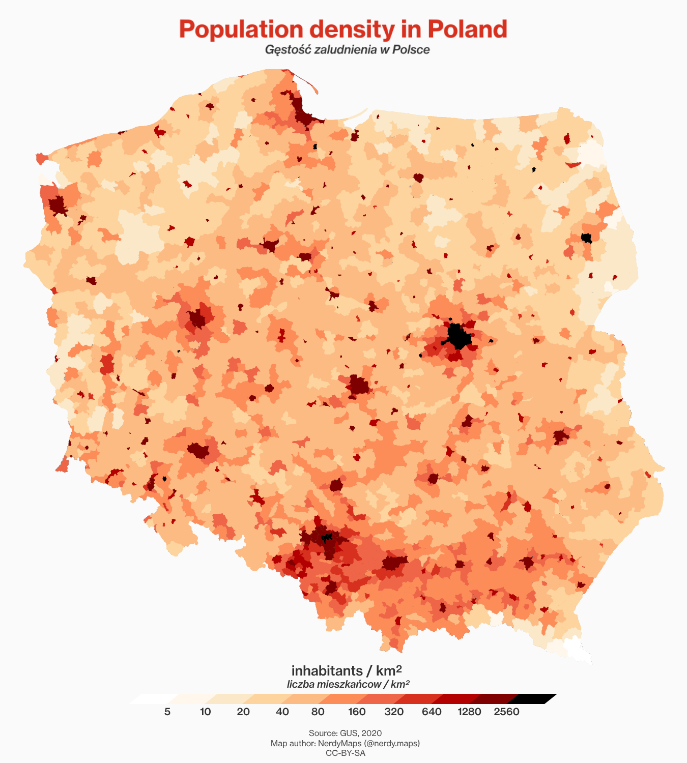 A map representing the population density in Poland, as of 2019